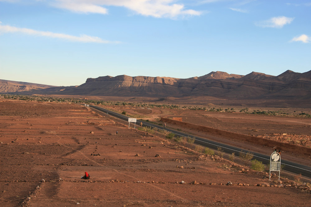 Way out of N'kob, direction Tazzarine in south Morocco